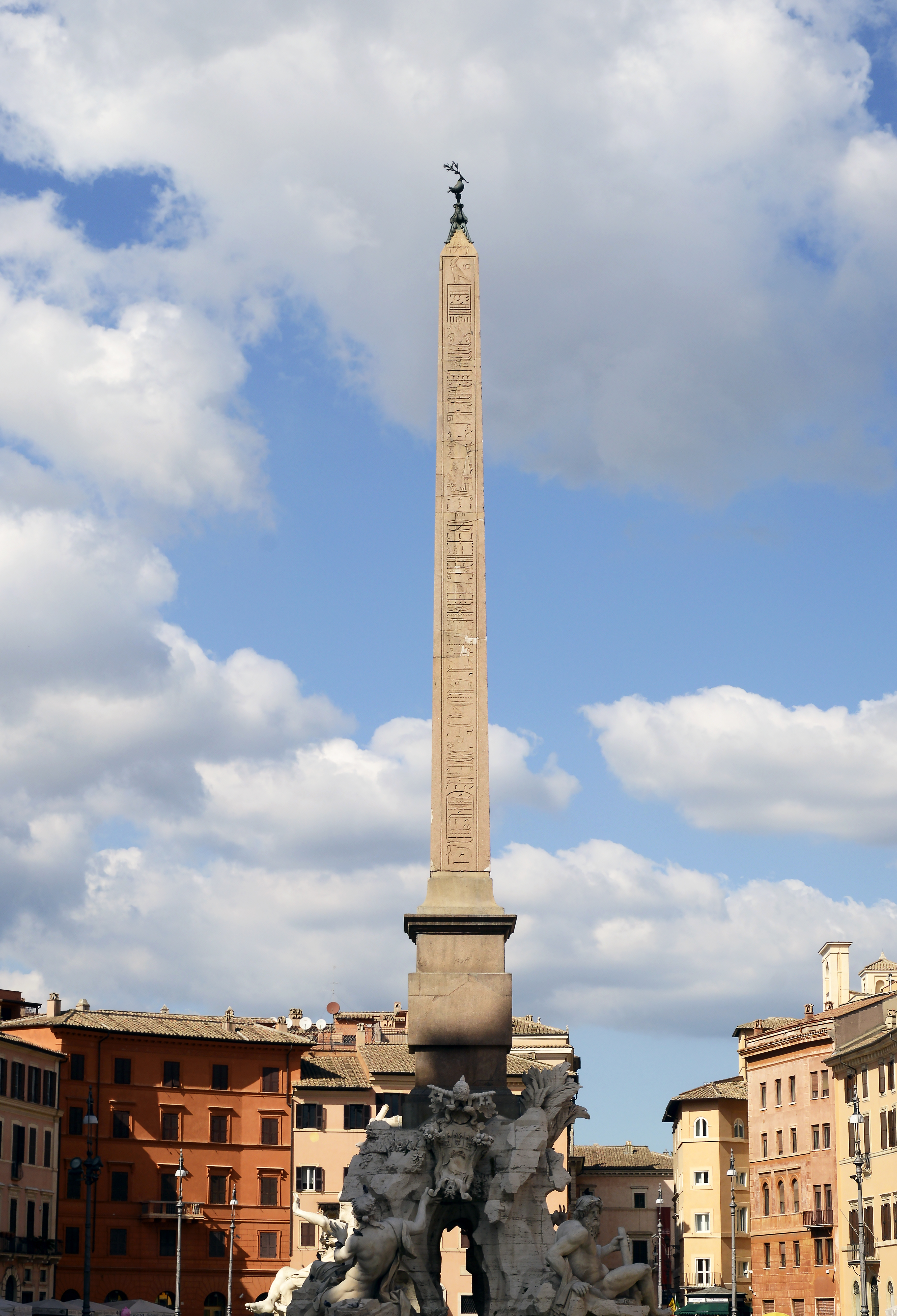 Obelisk in Piazza Navona